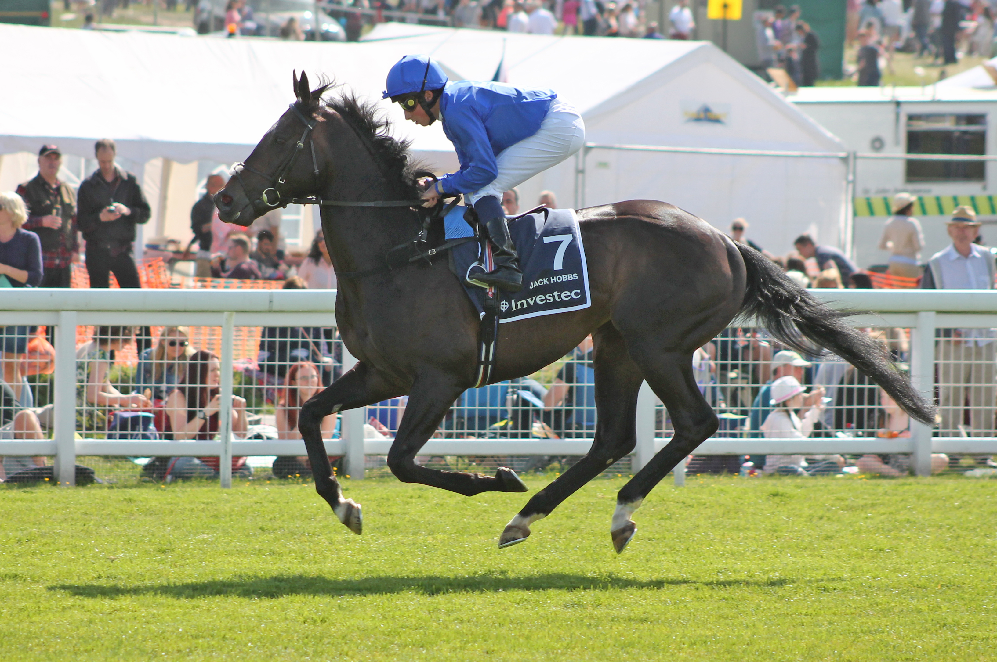 036 Epsom Derby 2015 - Jack Hobbs and William Buick going to post Epsom Derby